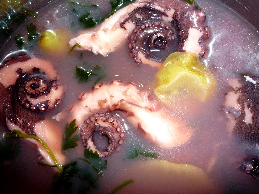 Maltese Octupus cooked in its own liquid with parsley, garlic and citron